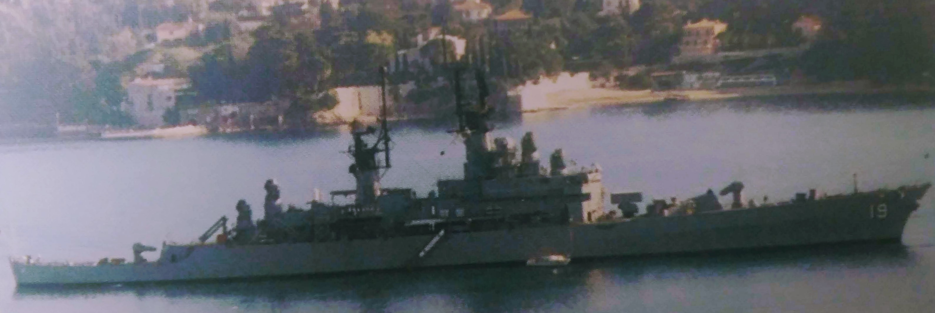 The U.S. Navy guided missile cruiser USS Dale (CG-19) anchored off Villefranche-sur-Mer, France, for a port visit on 25 December 1982.